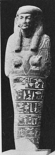 Ushabti of Minmose, an ancient Egyptian high officer under the pharaoh Amenhotep II. 18th Dynasty, New Kingdom.